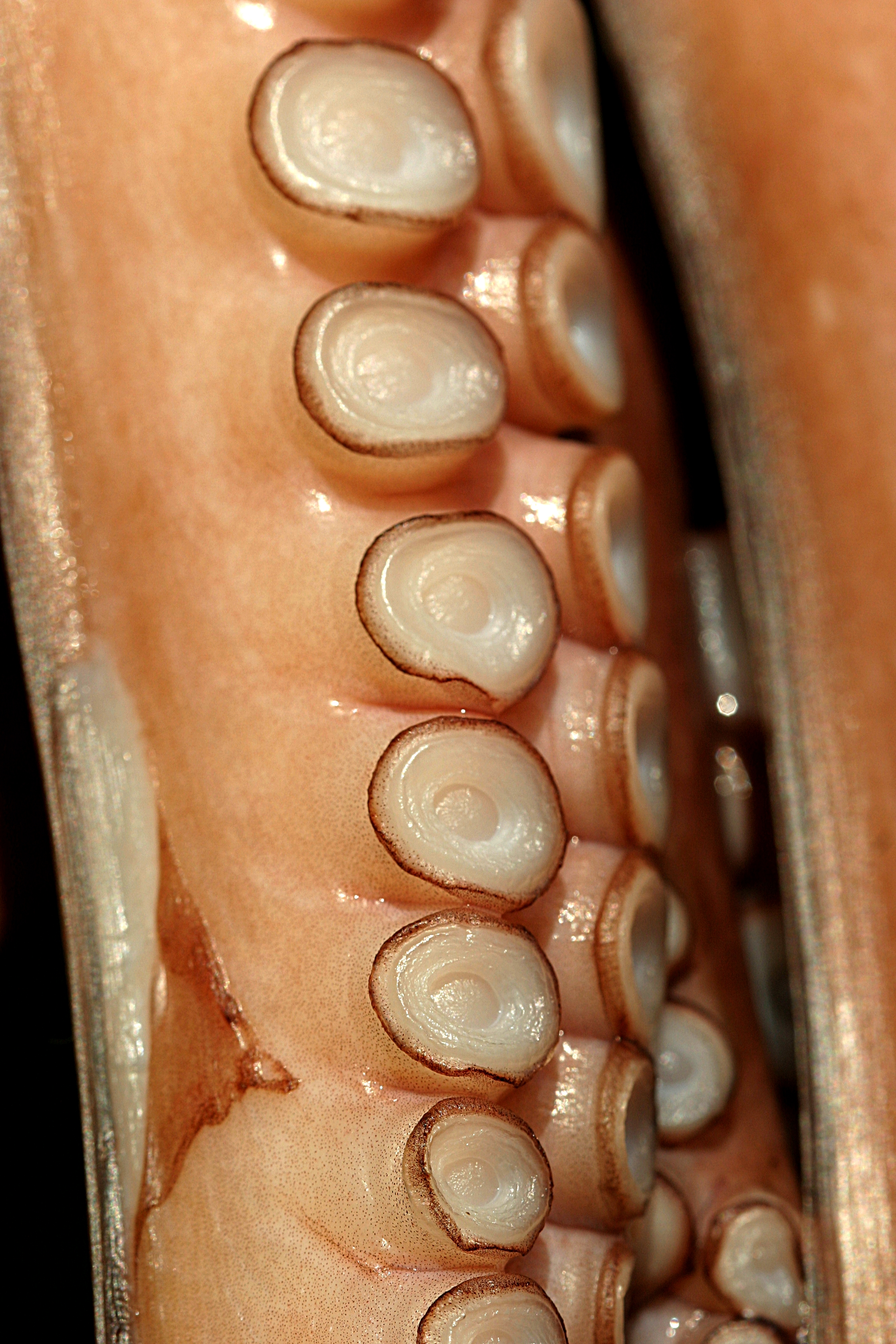 The arm and suckers of an octopus, drying in the sun in preparation for eating.